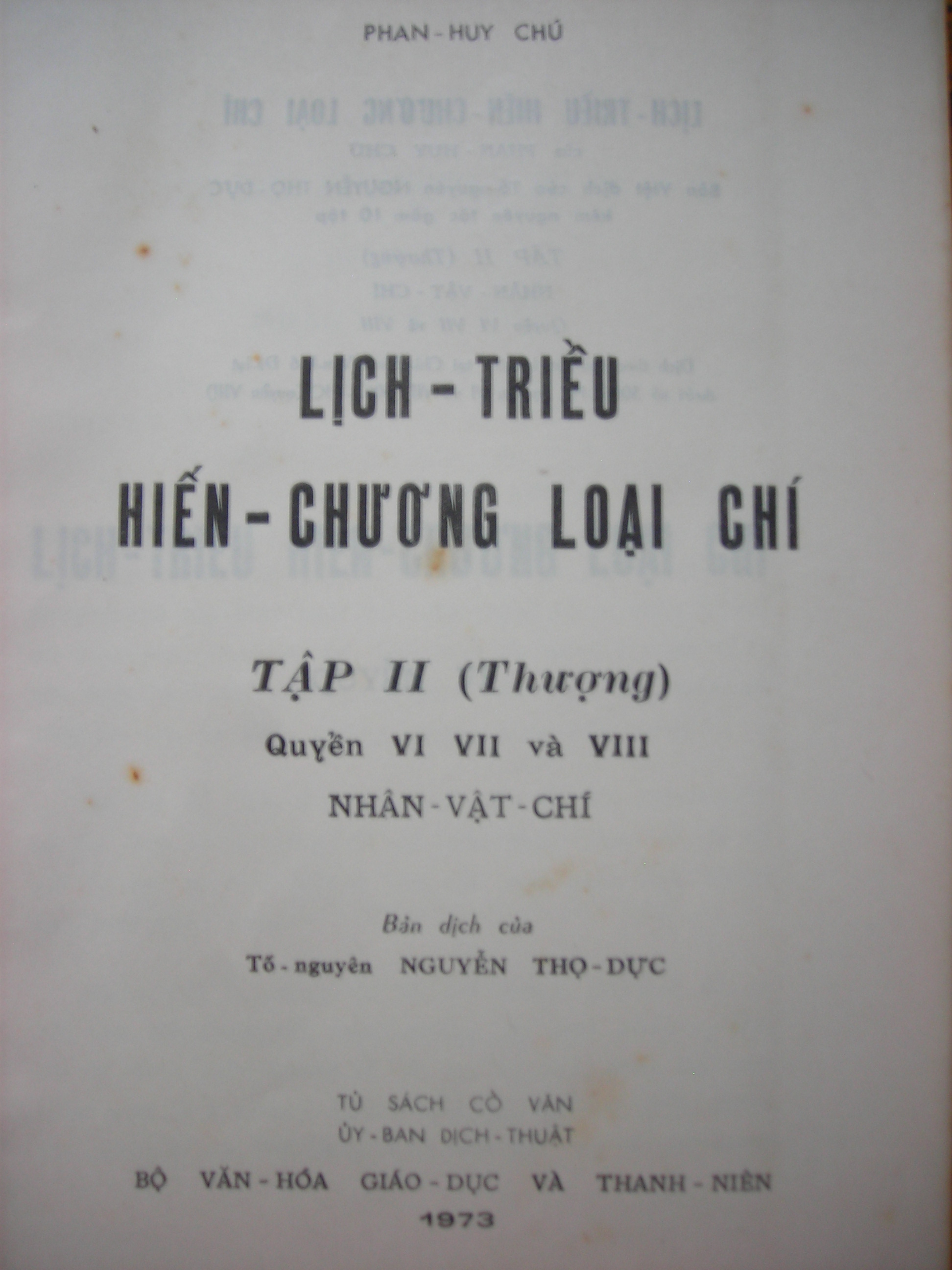 Book/document offered by author, a friend's father